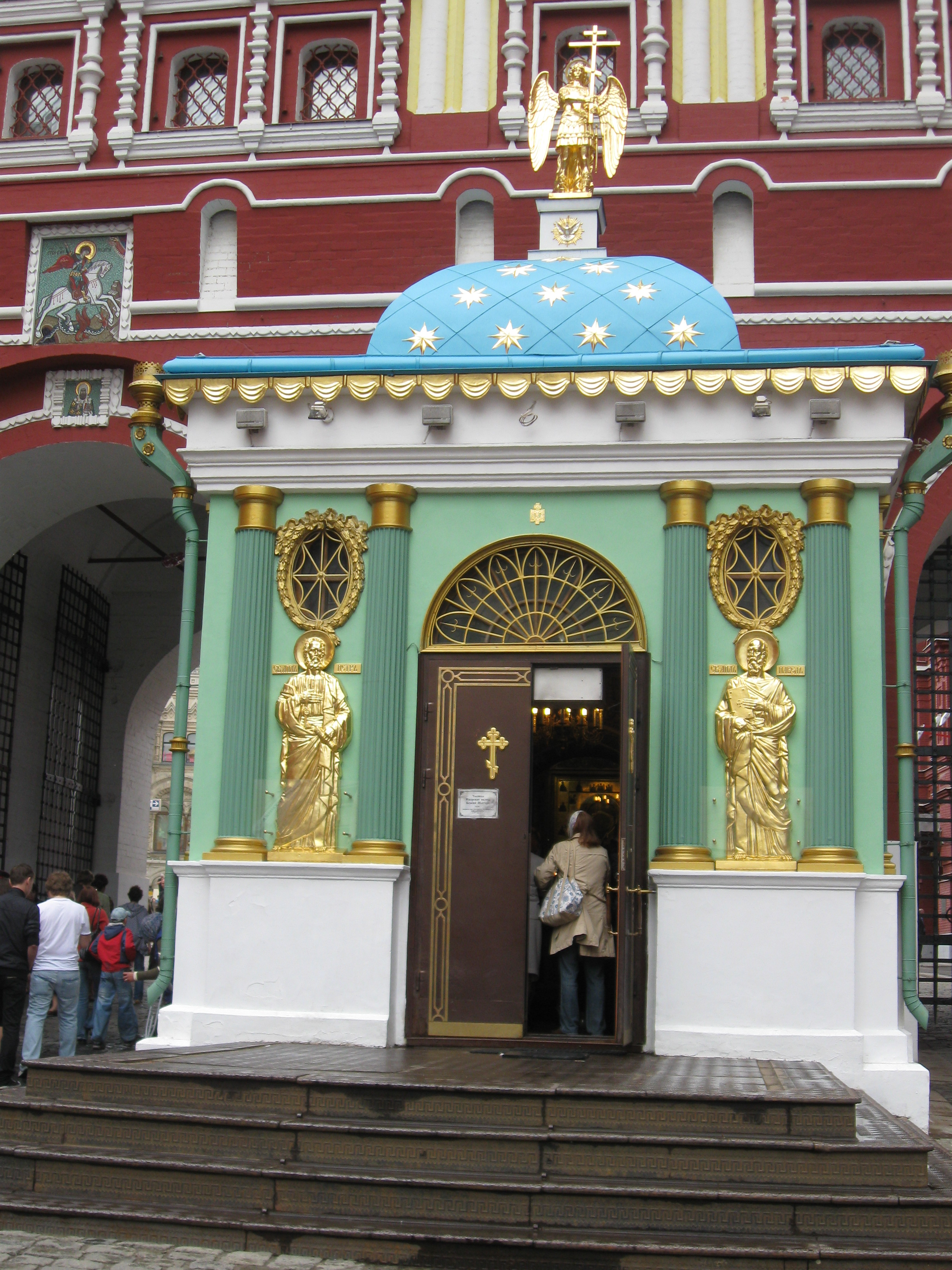 Our Lady "Iverskaya" Chapel in Moscow. The present-day chapel, rebuilt in 1994-1995.